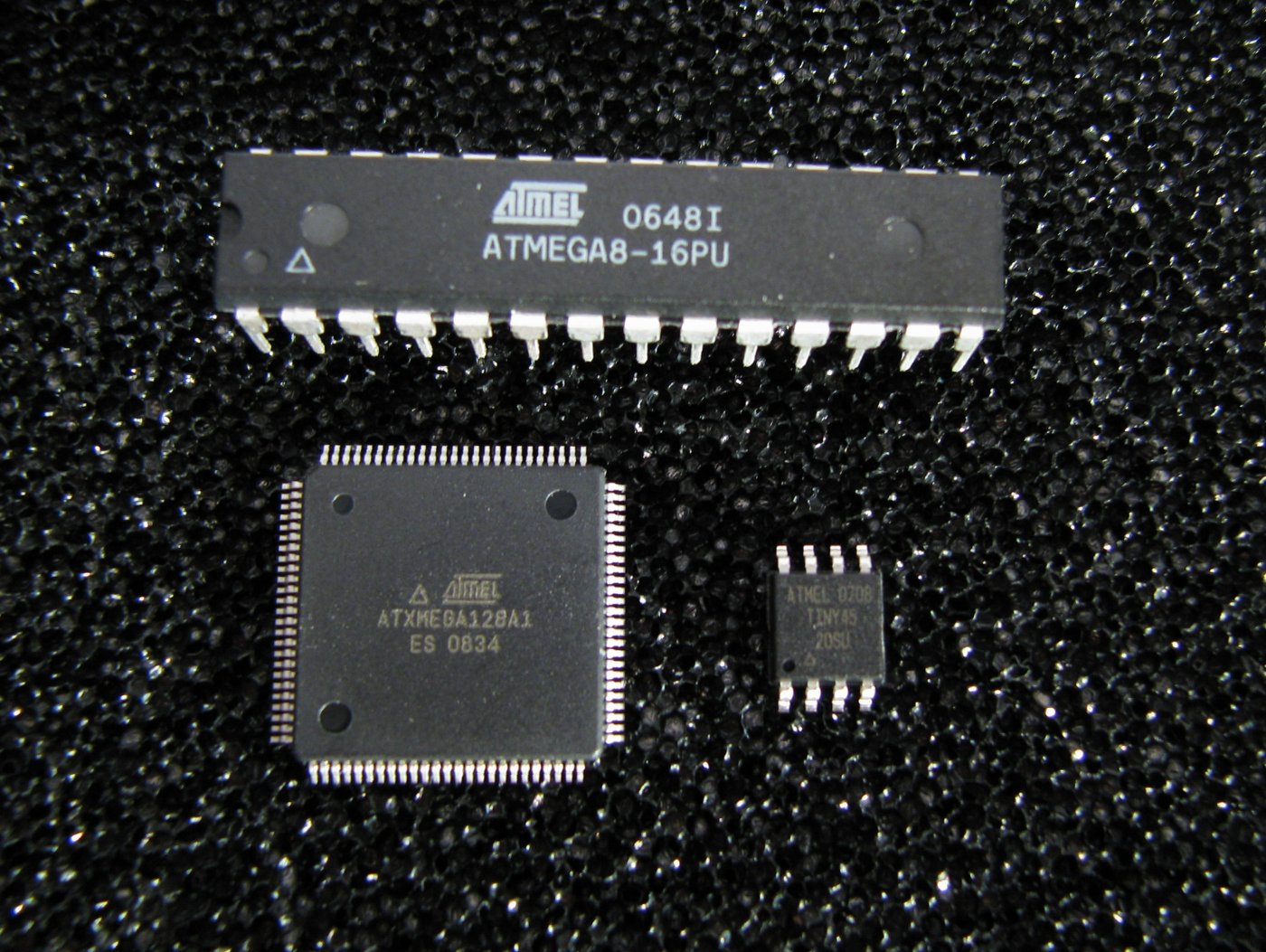 ATtiny45-20SU ATmega8-16PU ATXmega128A1